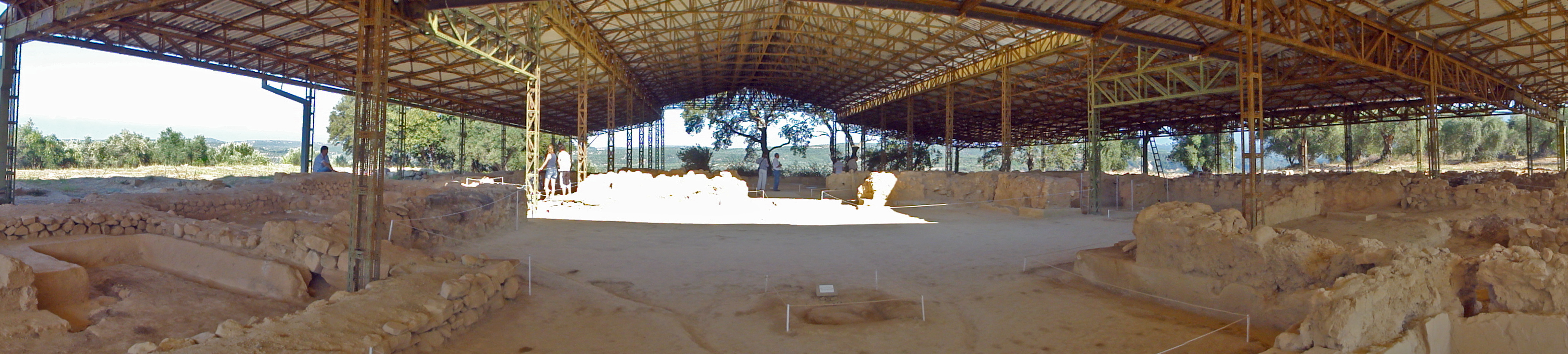 Panoramic shot of the covered area of Nestor's Place (consisting of most of the remaining palace buildings).